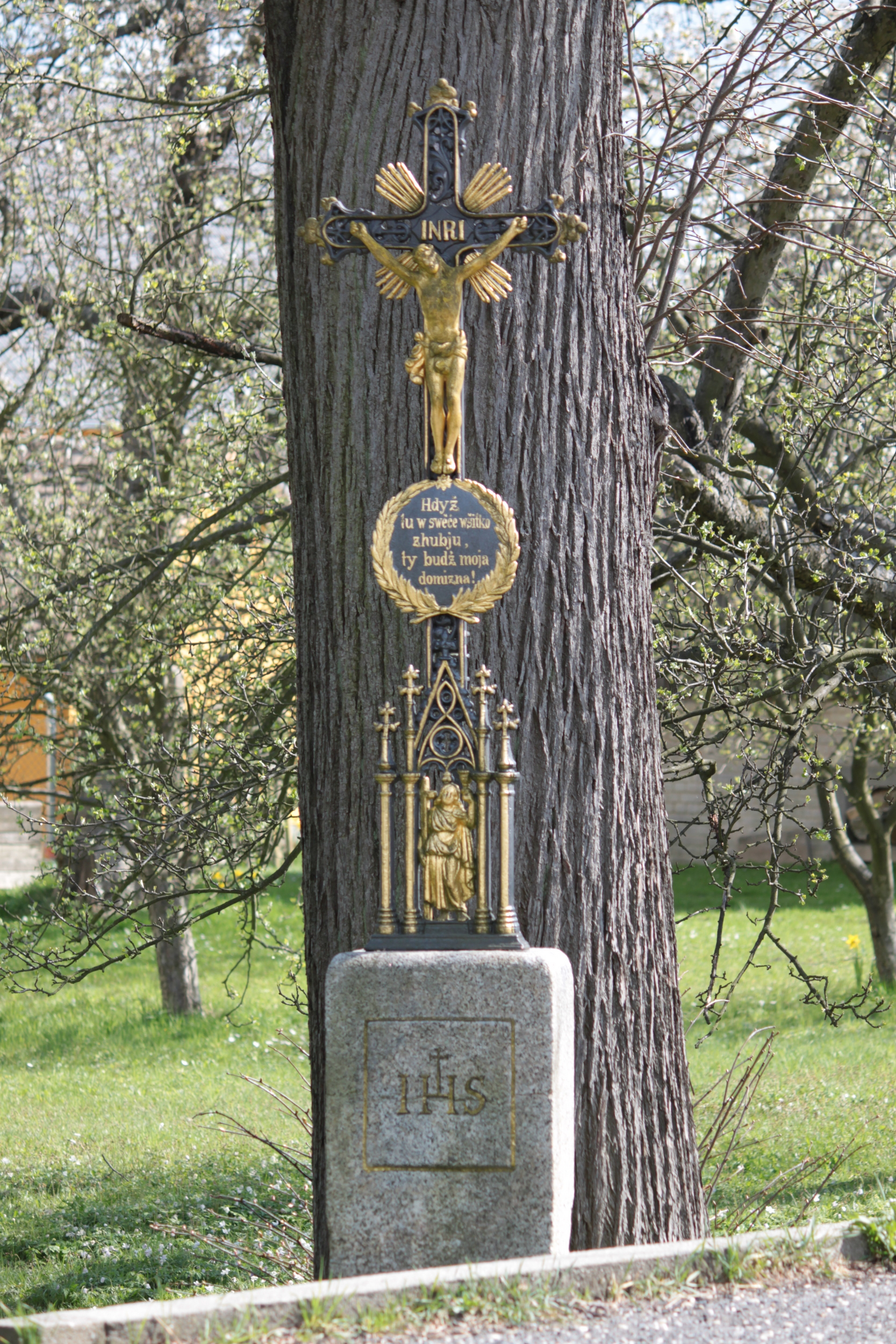 Wayside cross in Kaschwitz/Kašecy, municipality of Panschwitz-Kuckau, Bautzen district, Saxony. Inscription: „Hdyž tu w swěće wšitko zhubju, ty budź moja domizna.“ («When I lose everything in this world, you will be my home.»)